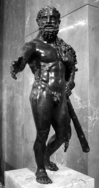 Heracles (Roman statue in bronze) - in the Louvre, Paris